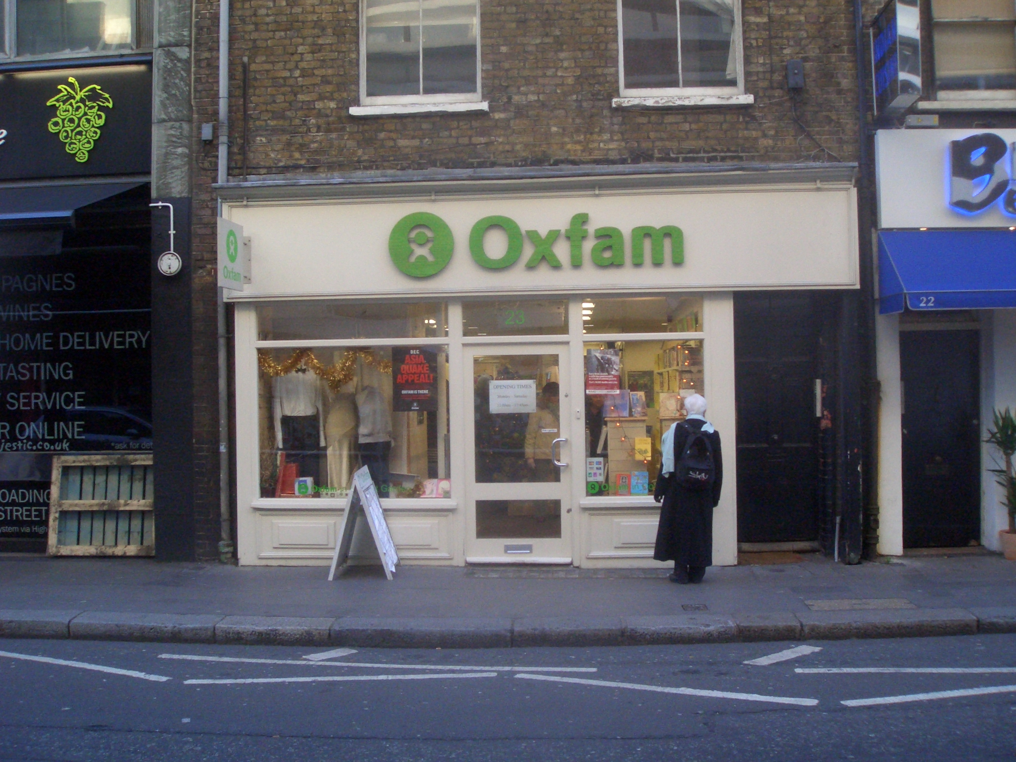 Oxfam shop 23 Drury Lane, Covent Garden, London, WC2B 5RH Photo by User:Edward, taken 17 December 2005